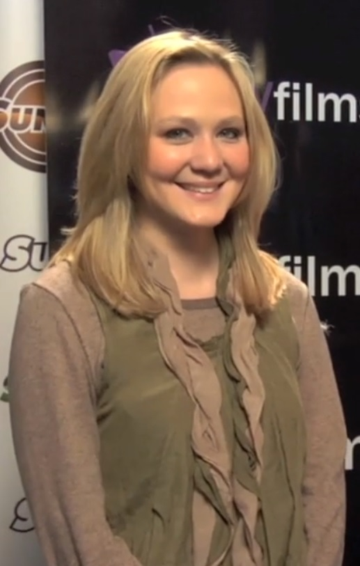 Cropped from VIDEO, Louisa Krause chats with Kelly Calabrese about her film, Martha Marcy May Marlene , Sundance 2011 Platinum Sponsor ?=RealTVfilms